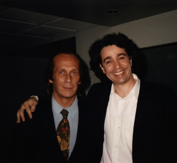 Michael Laucke With His Great Friend Paco De Lucia. ...photo taken at Montreal's Place des Arts in 1996. A year later, Michael asked Paco to sign the photo and he laughed becuase they actualy were roommates in New York. Michael insisted and Paco carefully signed and inscribed 'Un abrazo' (a hug). As Michael's assistant for many years, I had the pleasure meet Paco and to snap this personal photo. Dave Bradley Note for copyright purposes, this photo was taken by either an employee of, or by a photographer hired by Michael Laucke. It is a work for hire, owned and paid for by Michael Laucke. It is hereby licensed under Public Domain Dedication (CC0); ALL RIGHTS WAIVED! Nevertheless, if you use this photo, you must use the correct attribution, which is at least: Michael Laucke with Paco de Lucia.